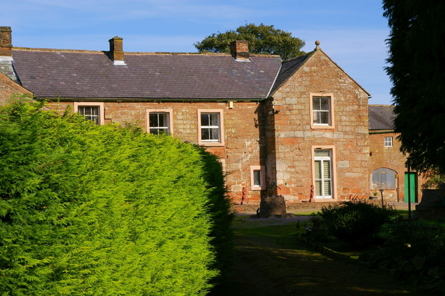 House Incorporating Old Pele Tower This building today called "The Old Pele" has previously been named: Croglin Vicarage, Kirkcroglin,and Rectory Farm. The gable end with french windows and window above were once part of Croglin Pele Tower. Croglin village was burned by Scottish raiders in 1346.